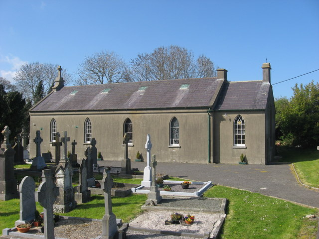 St. Mary's Church, Balscaddan, near to Balscaddan, Clonard, Tobertown and Dallyhaysy, Dublin, Ireland. Balscaddan, also 'Balscadden', translates as 'the town of the herrings'. The herrings are said to have been brought here from Newhaven on the coast O1965 . St. Mary's R.C. church was built in 1819.